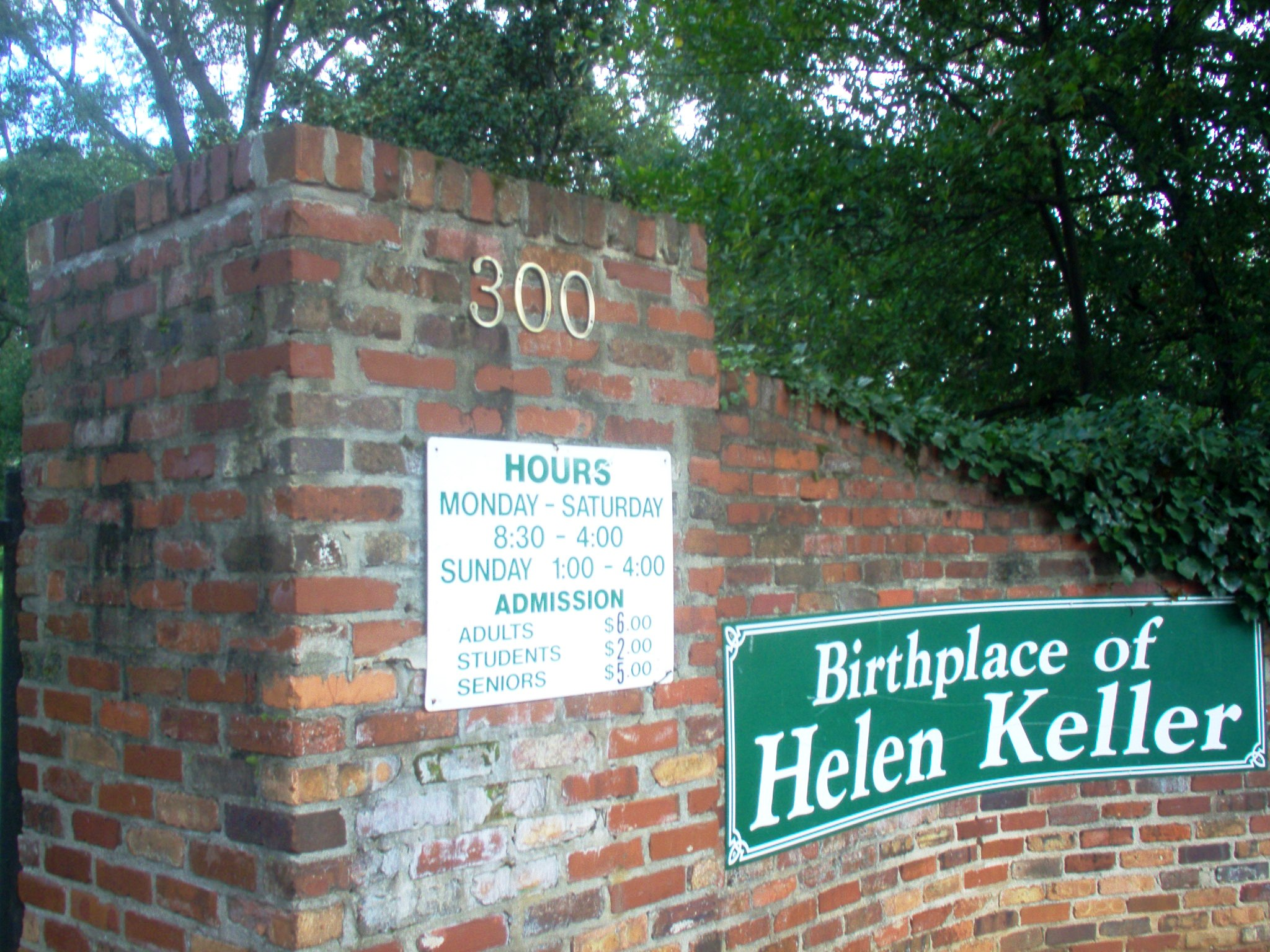 Entrance to Ivy Green in Tuscumbia, Alabama